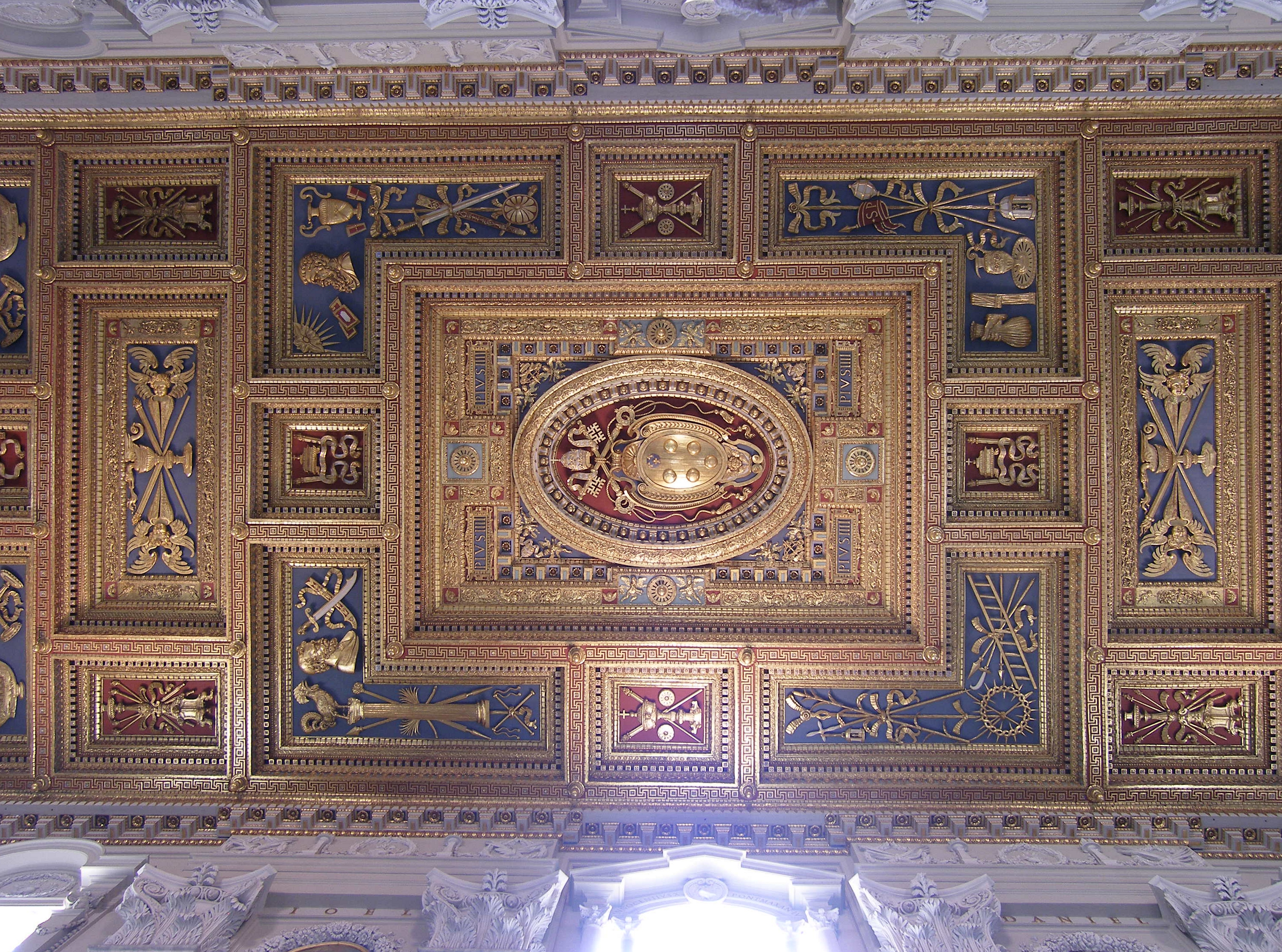 Rome, Basilica San Giovanni in Laterano, Ceiling